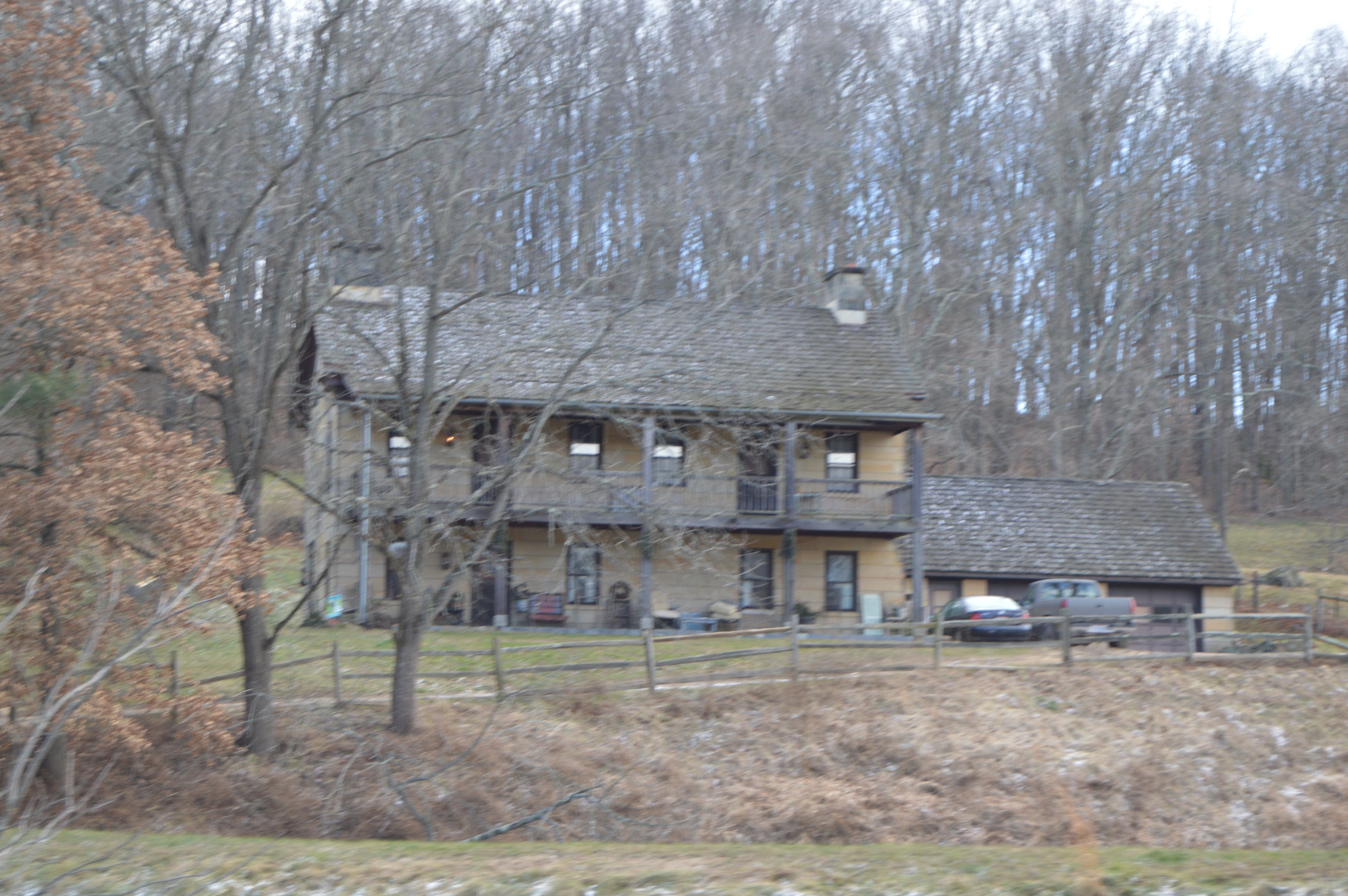 Front of the Cuthbert Milligan House, located on the southern side of Road 207 north of Coshocton in Keene Township, Coshocton County, Ohio, United States. Built in 1828, it is listed on the National Register of Historic Places.